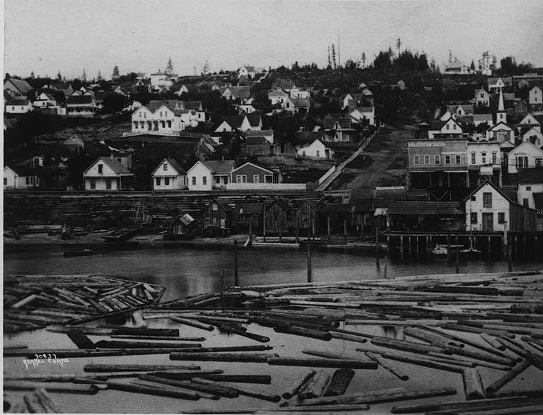 Original photograph by George Moore [9]. Shows the Elephant Store at southeast corner of Columbia St. and 1st Ave. Subjects (LCTGM): Cities & towns--Washington (State); Logs--Washington (State)--Seattle Subjects (LCSH): Seattle (Wash.)